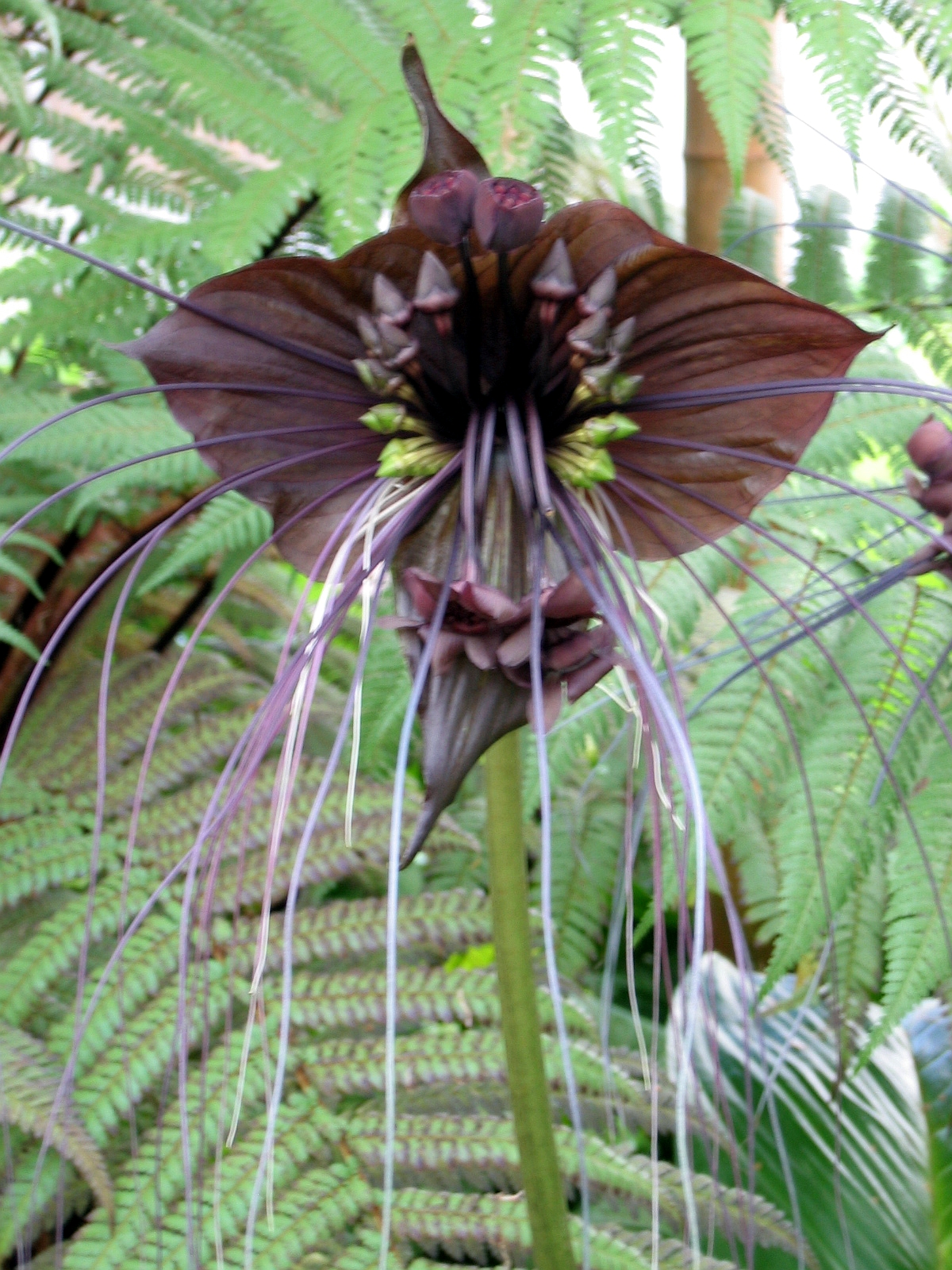 Close-up of a bat-flower from the balinesien garden in Berlin-Marzahn